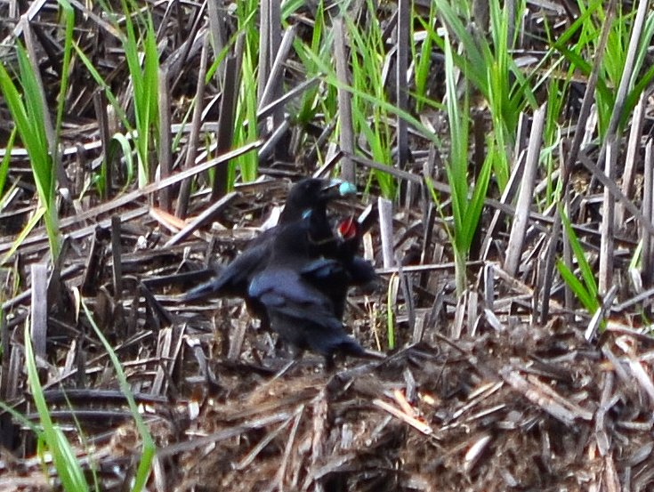 American Juvenile Crows fighting over a blue egg